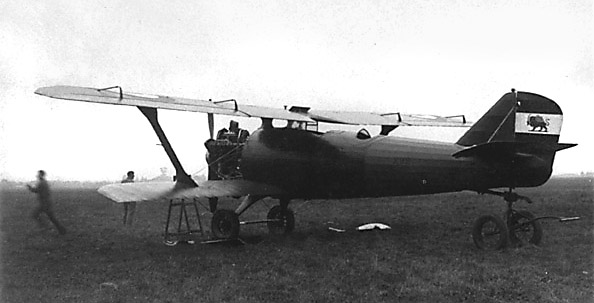 A Breguet 19 is preparing to take off. A small serial number (292) is painted on the fuselage and the Persian lion and sun emblem and national colours are on the rudder.